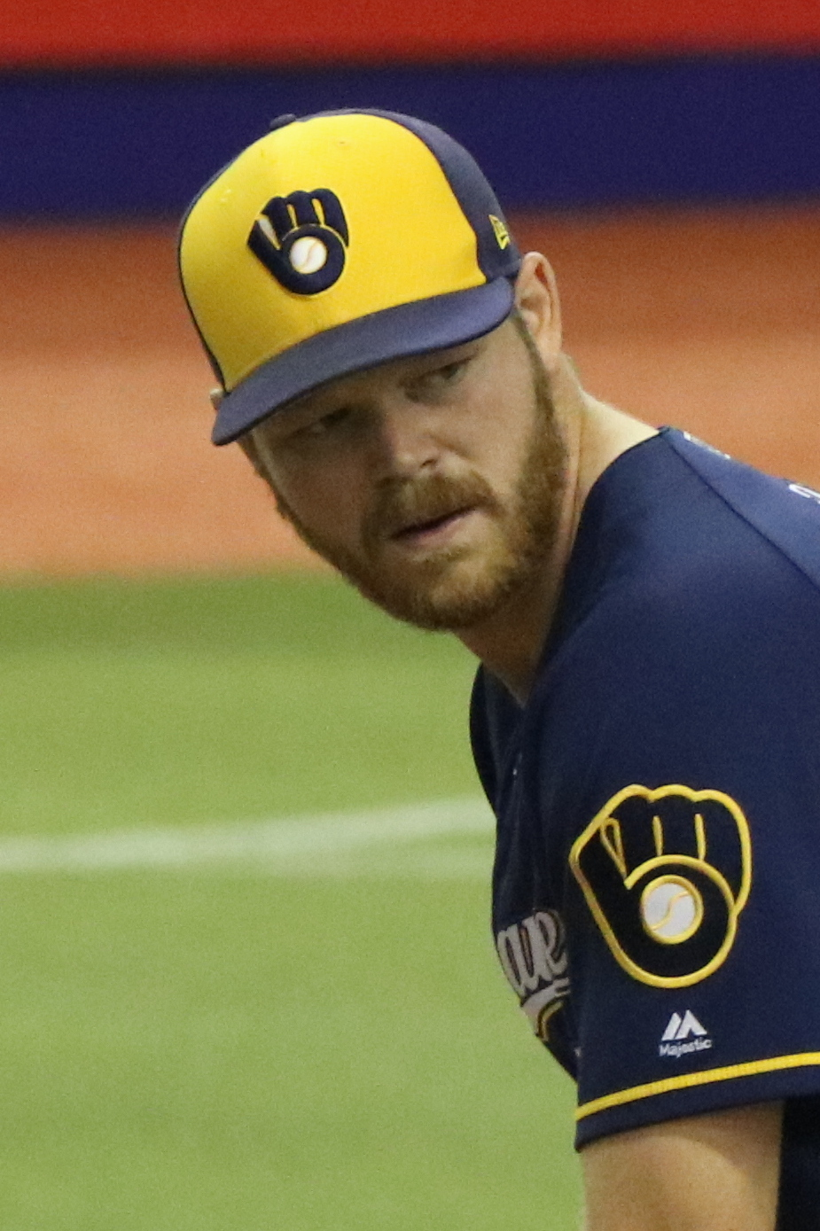 Brandon Woodruff checks a runner, March 25, 2019